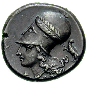 Corinth. Circa 345-307 BC. AR Stater (8.53 gm). Laureate and helmeted head of Athena left; A-P at neck, eagle standing left, head reverted, behind.